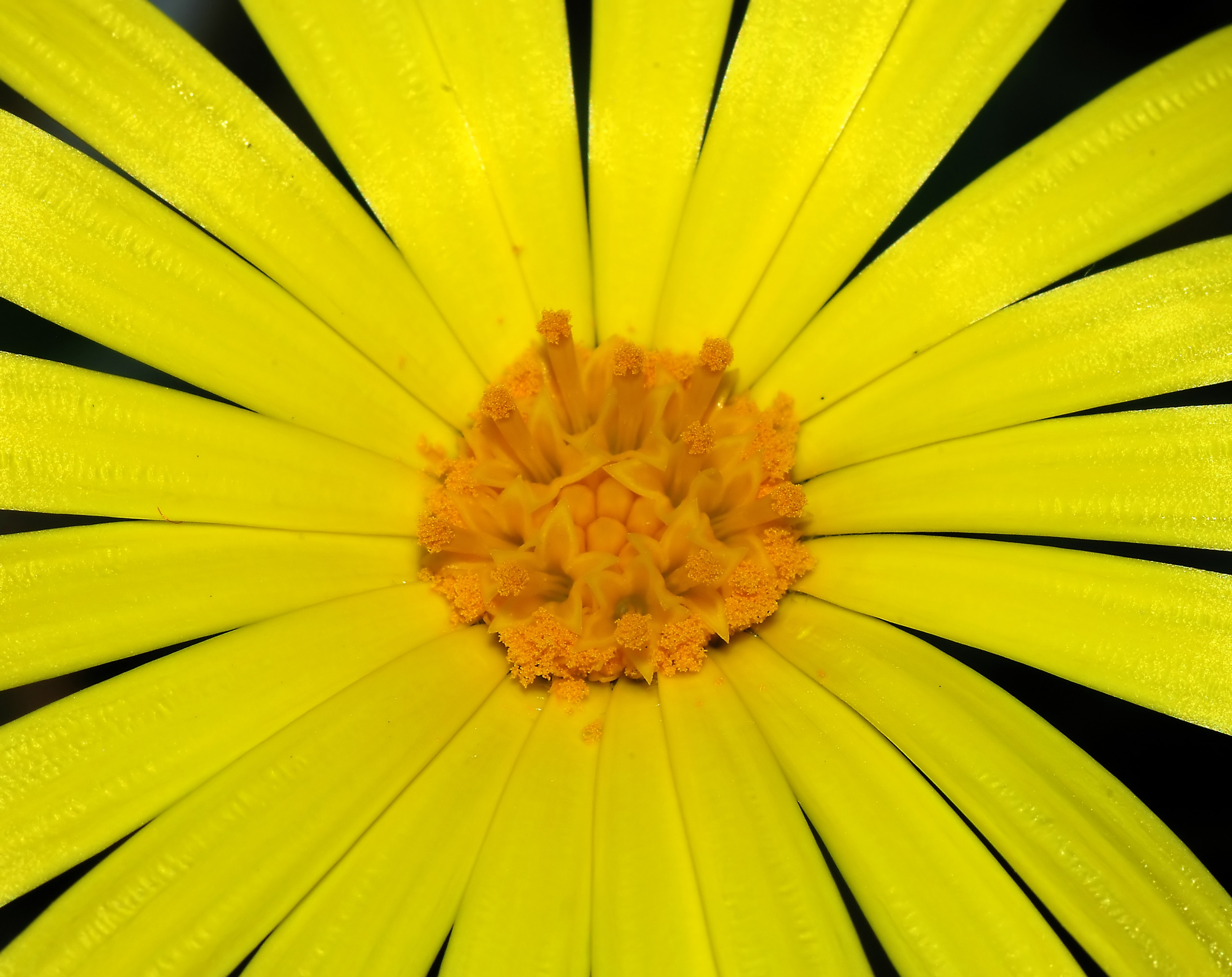 Field Marigold flower